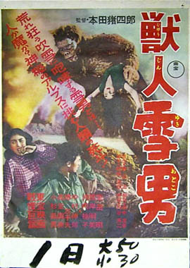 Movie poster for 1955 Japanese film Half Human (獣人雪男, Jujin Yuki Otoko, lit. "Monster Snowman") (Zoku shishunki).